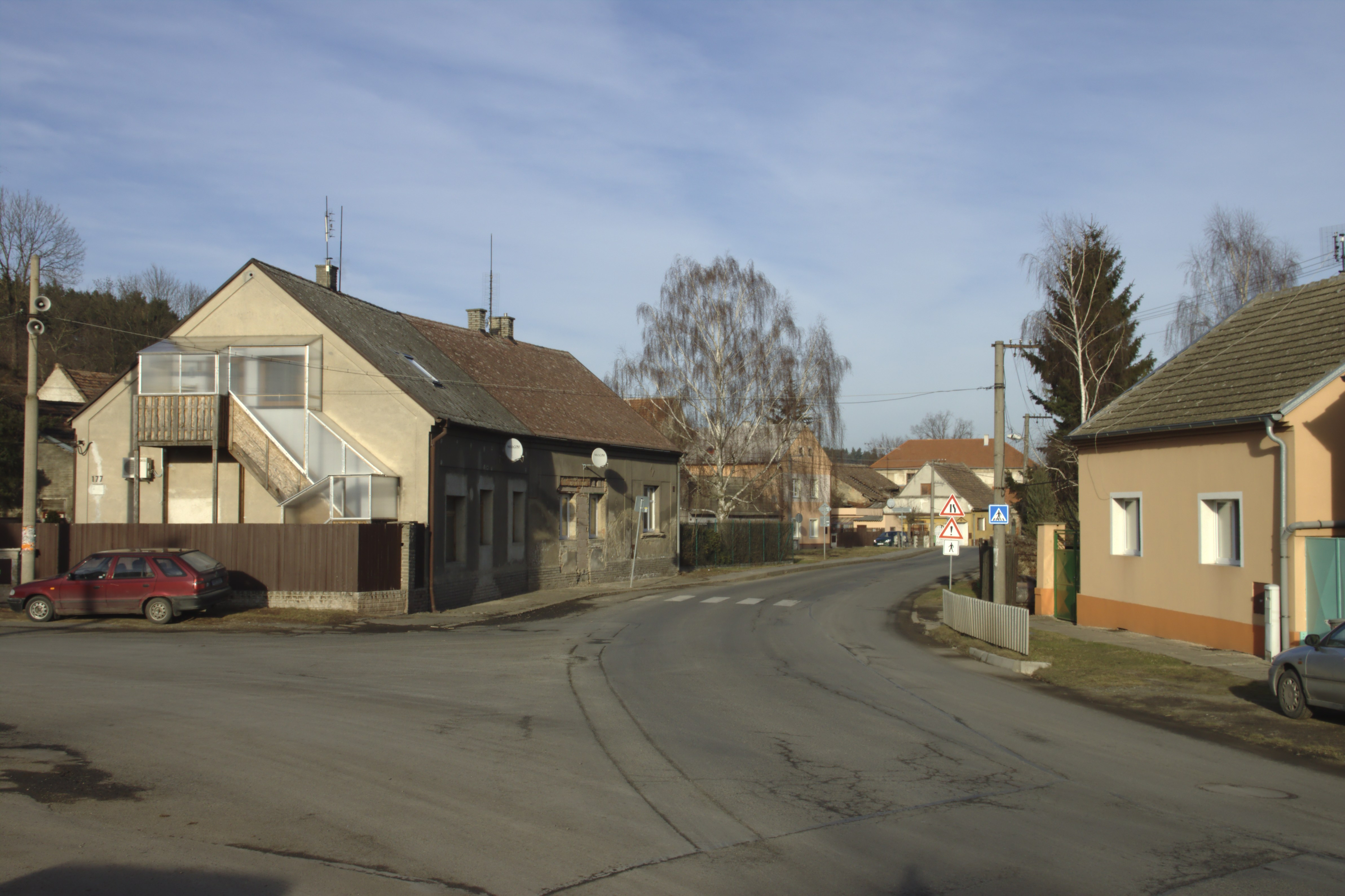 Village of Třebichovice in Kladno District, Central Bohemian Region, CZ